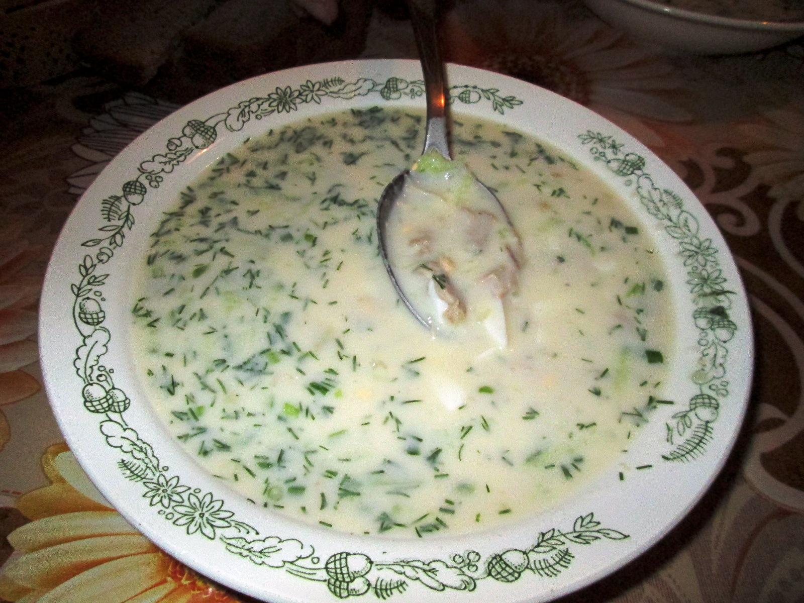 Russian soup okroshka from Voronezh, Russia